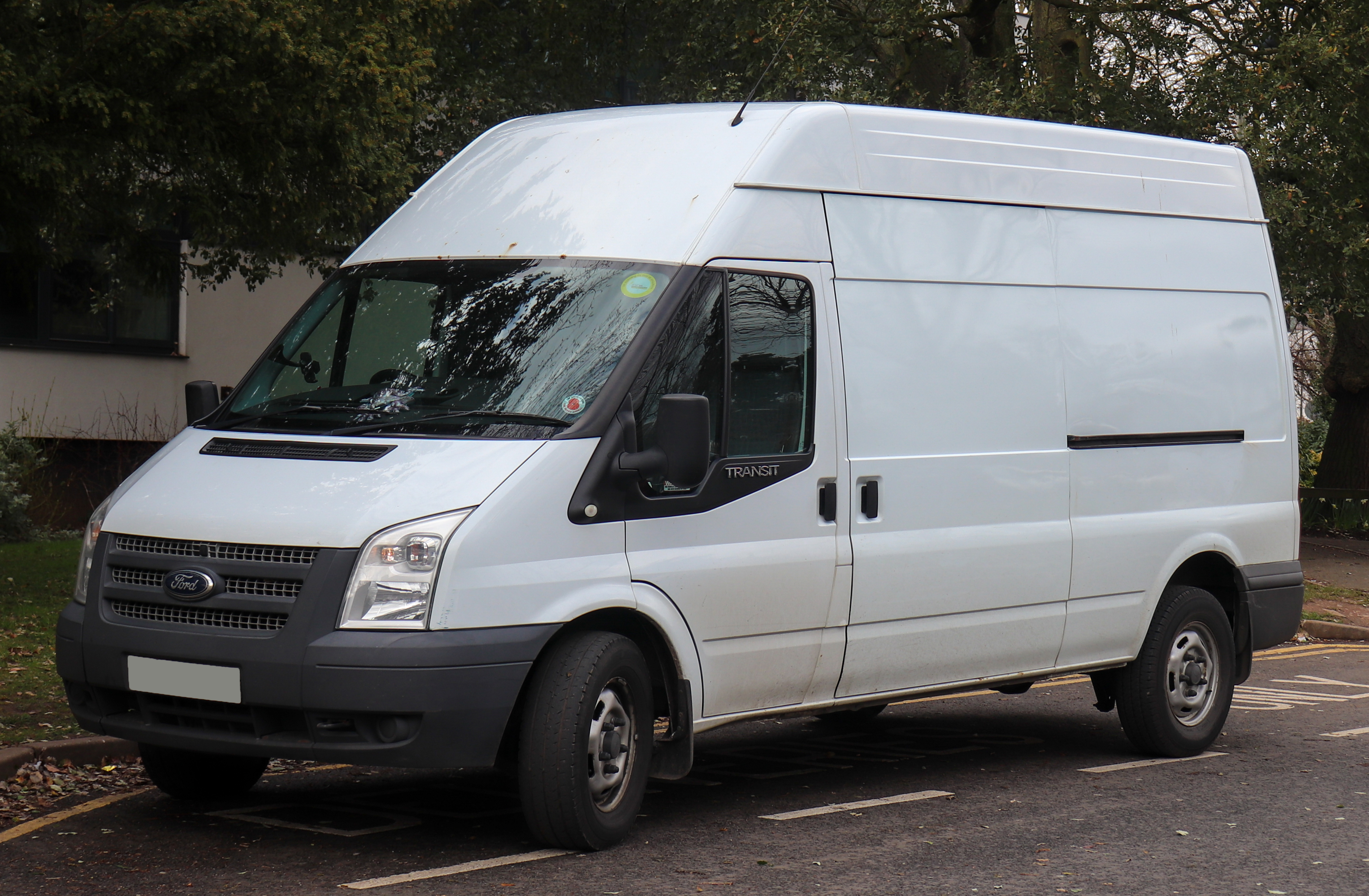 2013 Ford Transit 100 T350 RWD 2.2 Front Taken in Leamington Spa